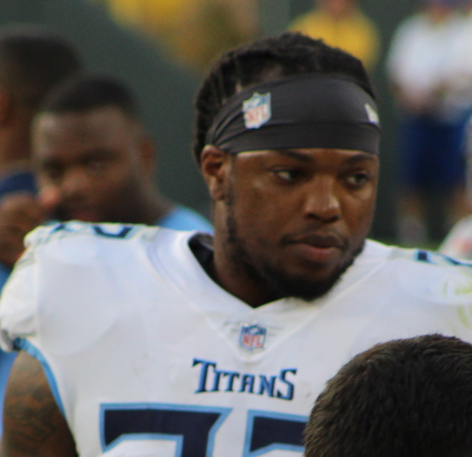 Derrick Henry, Tennessee Titans at Green Bay Packers (Preseason), August 9, 2018